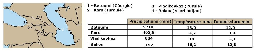 Caucasus Climate diversity tab/map